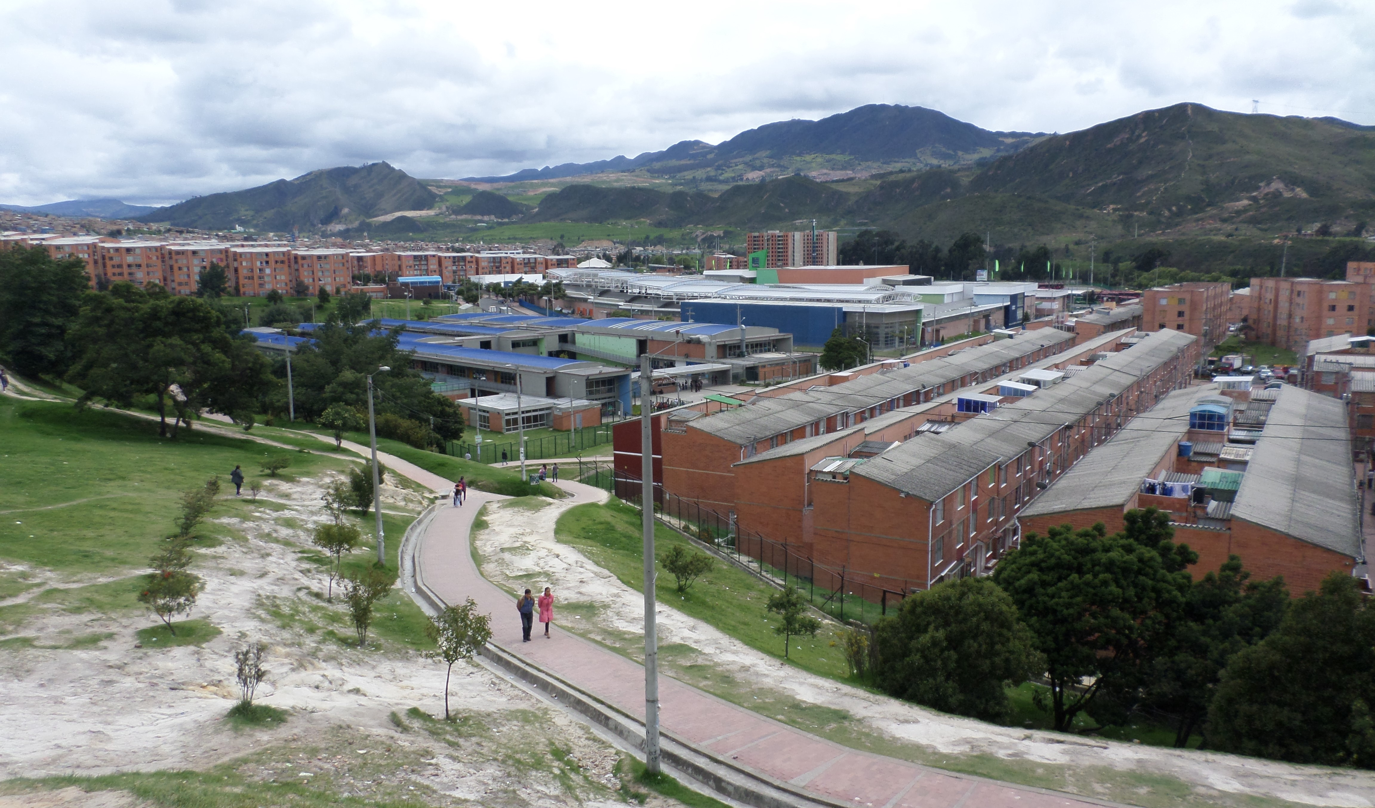 jkkolli